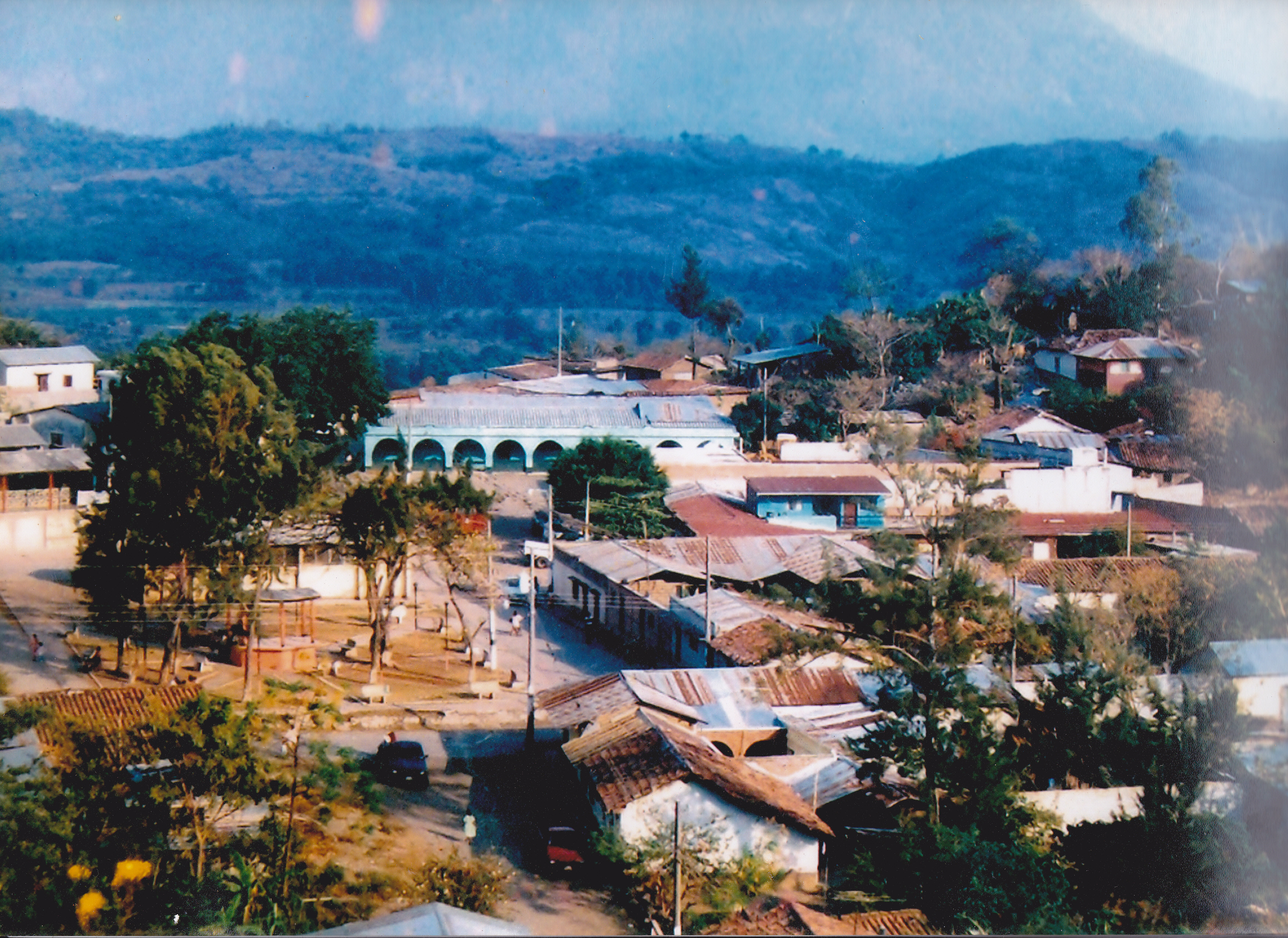 Fotografía del Municipio de Yupiltepeque, tomada en la década de los 90s